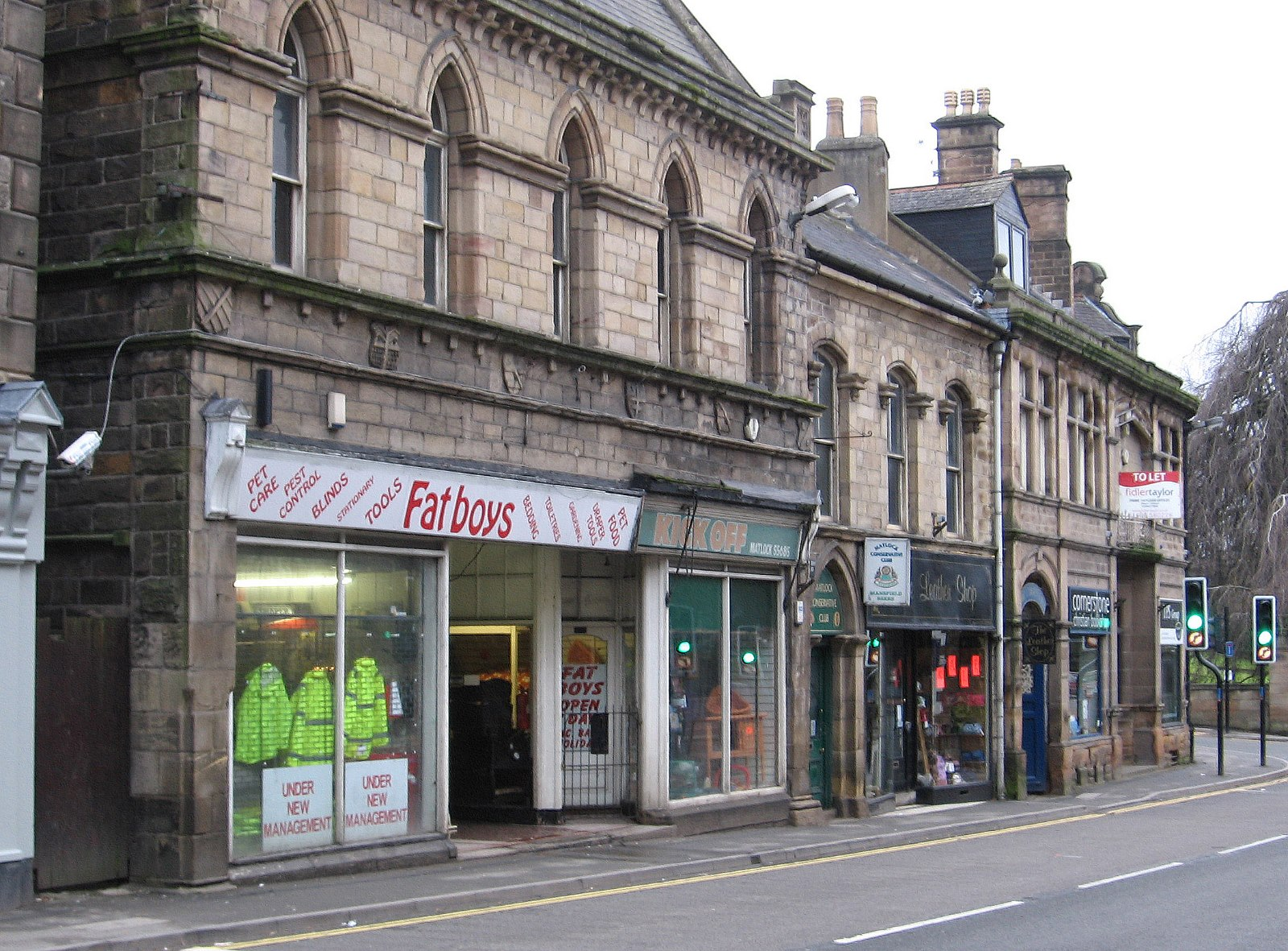 Matlock - former market hall